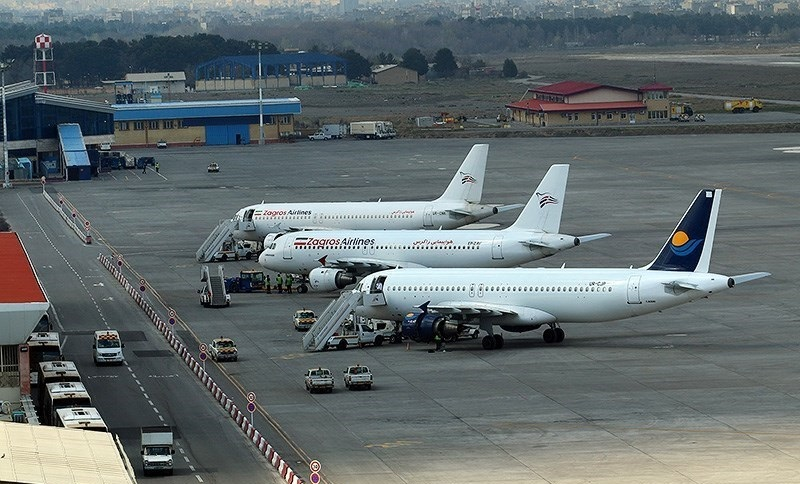 Shahid Hashemi Nejad Airport